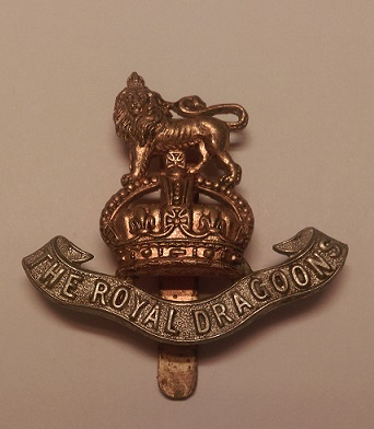 Photo of Royal Dragoons Cap Badge from personal collection